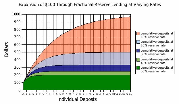 The expansion of $100 through fractional-reserve lending at varying rates.